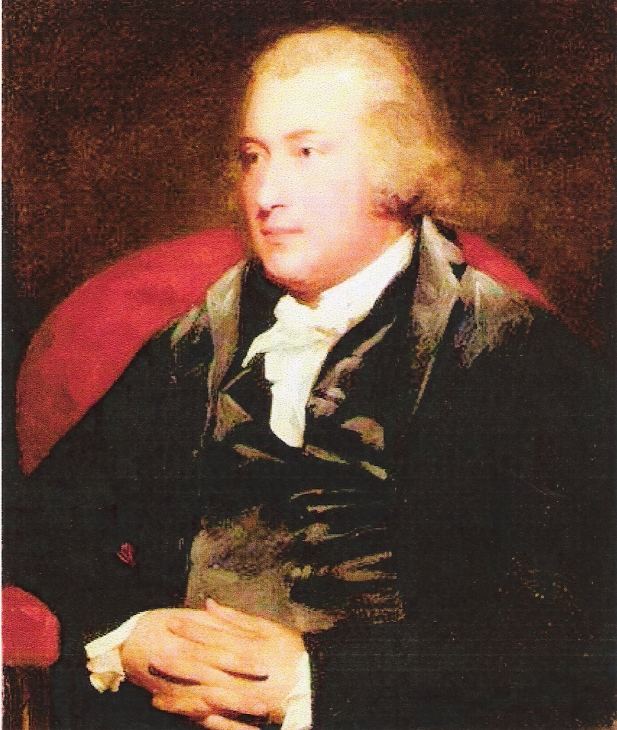 Private photo taken of original painting about 8 years ago.